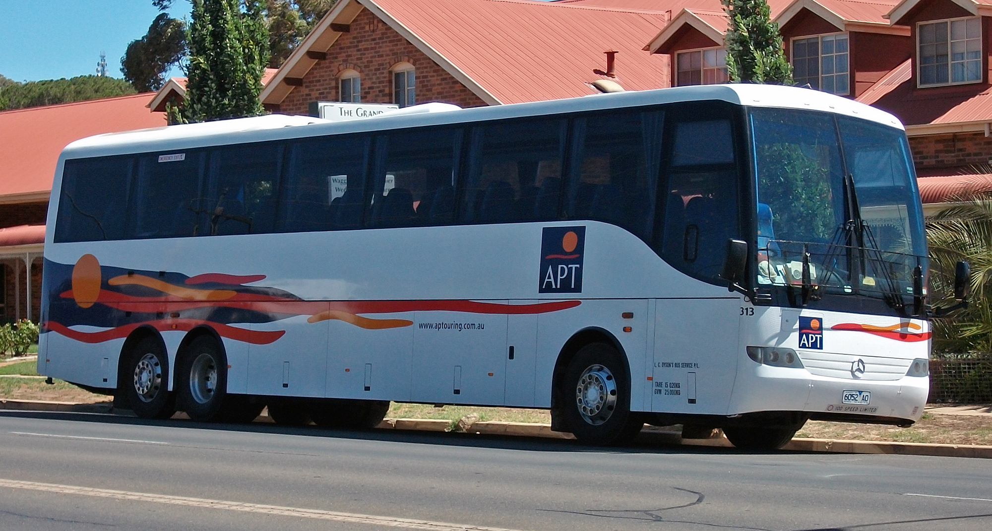 Coach Design bodied Mercedes Benz O500RF-3 13.5m owned by Dyson's Bus Service and operated in the APT livery.